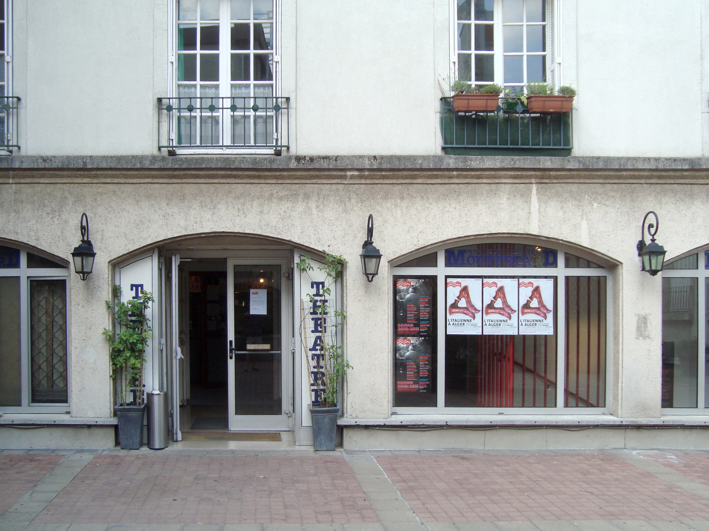 Entrance of the Théâtre Mouffetard in Paris